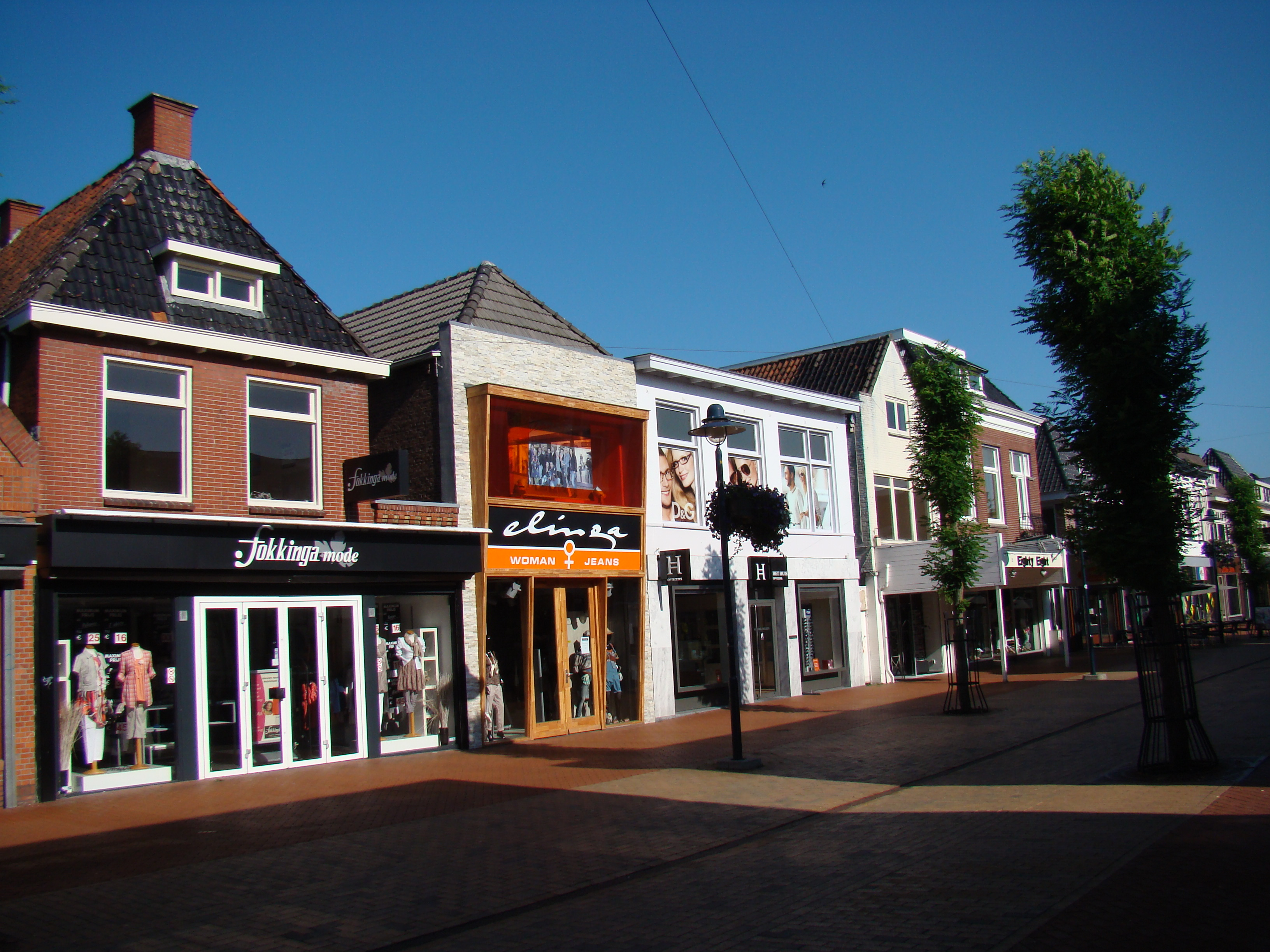 Impressions of Drachten (Netherlands)